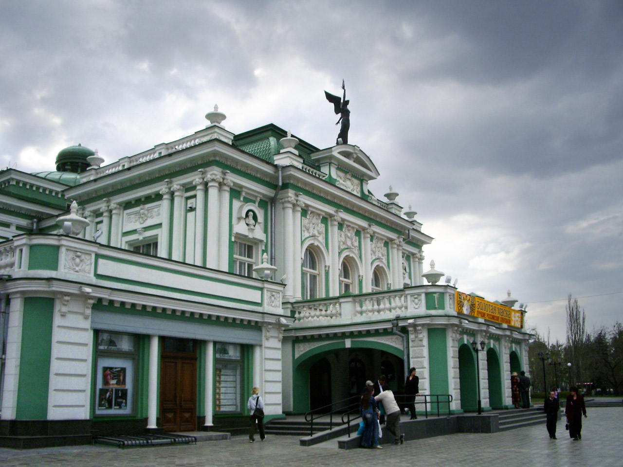 Drama Thearte in Omsk city, Russia. Lenin street, 8A, Omsk city, Russia Dmitri Lebedev, 13.05.2006